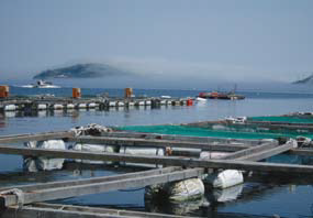 Cage farms for finfish culture near the shore